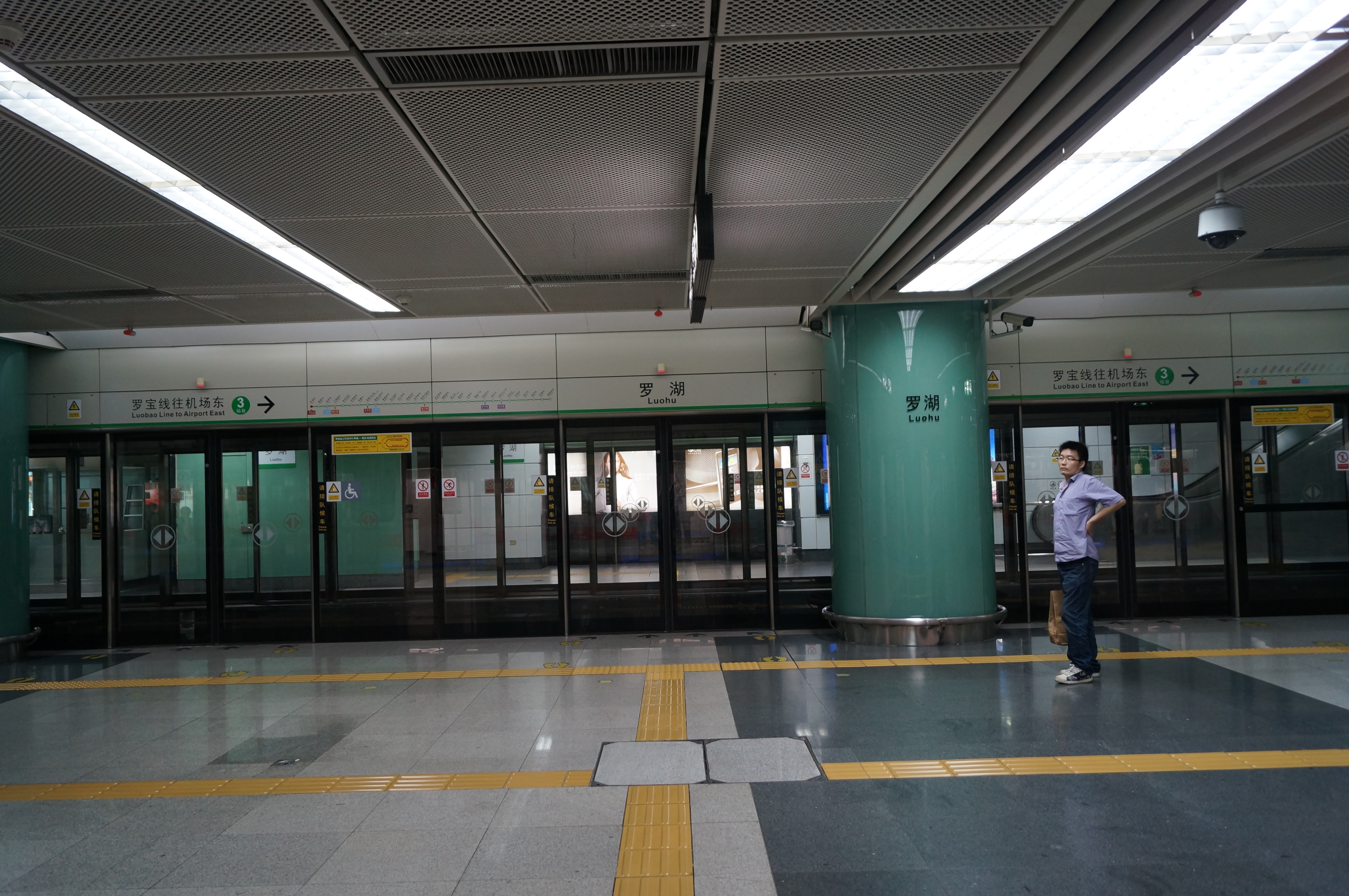 Luohu Station platform 3, 4 & 5.